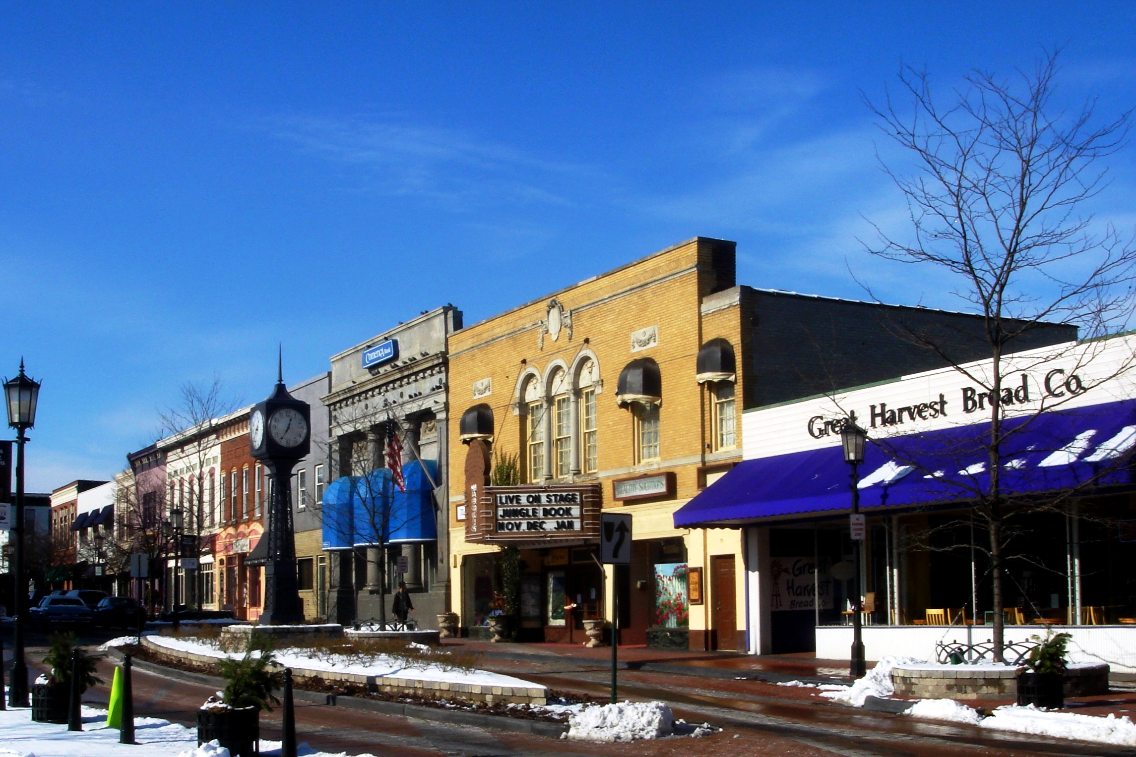 Northville Downtown